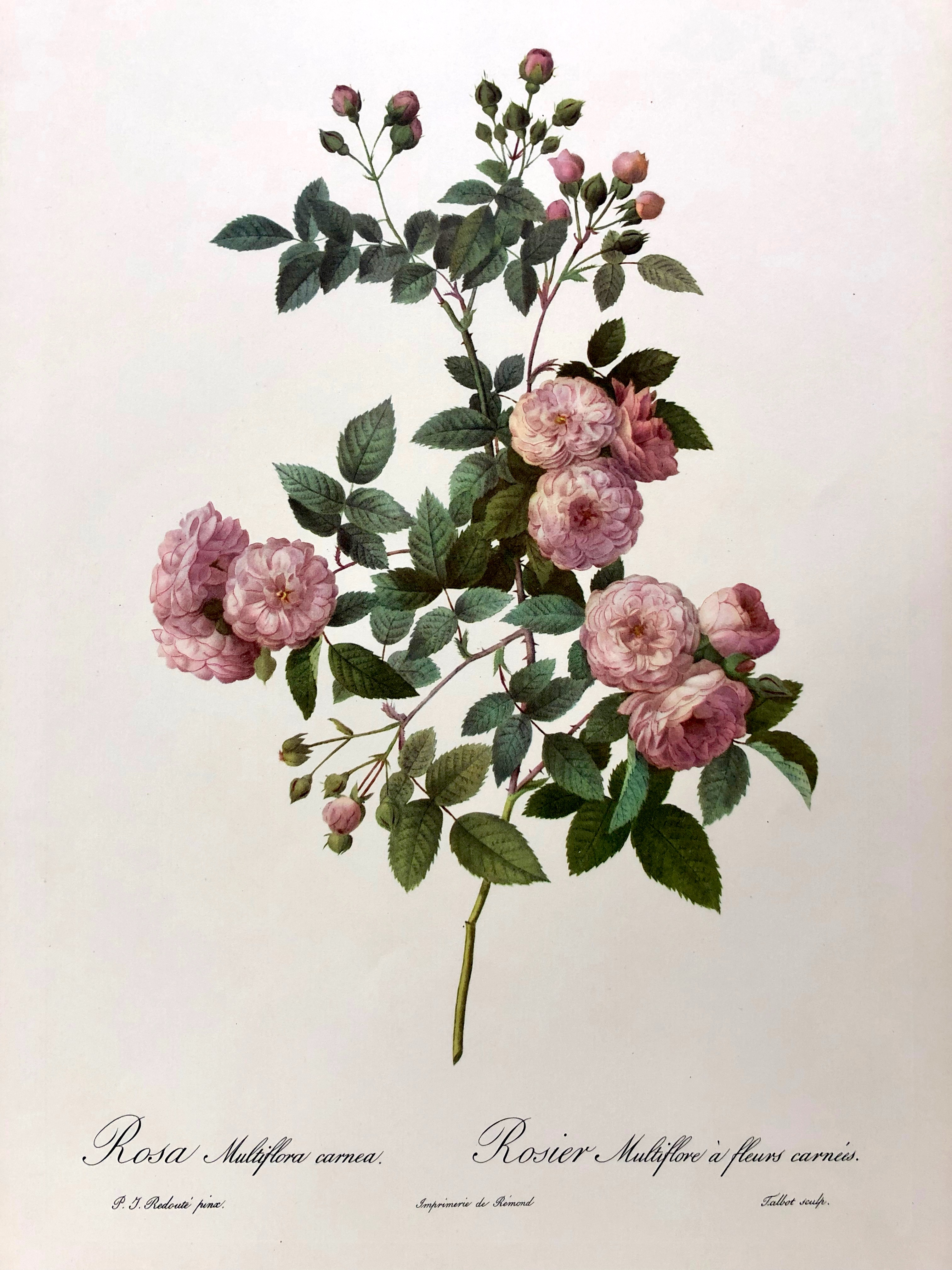 Rosa multiflora Carnea, illustration by Pierre-Joseph Redouté (1759-1840), from volume II of his work The Roses (link to page). Rosa multiflora Carnea is a type of rambling rose (source).